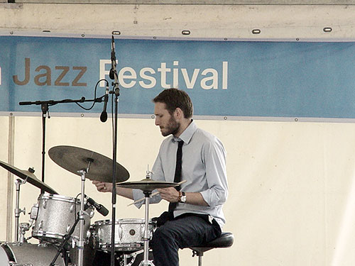 Mikkel Hess at Chopenhagen Jazz Festival 2006